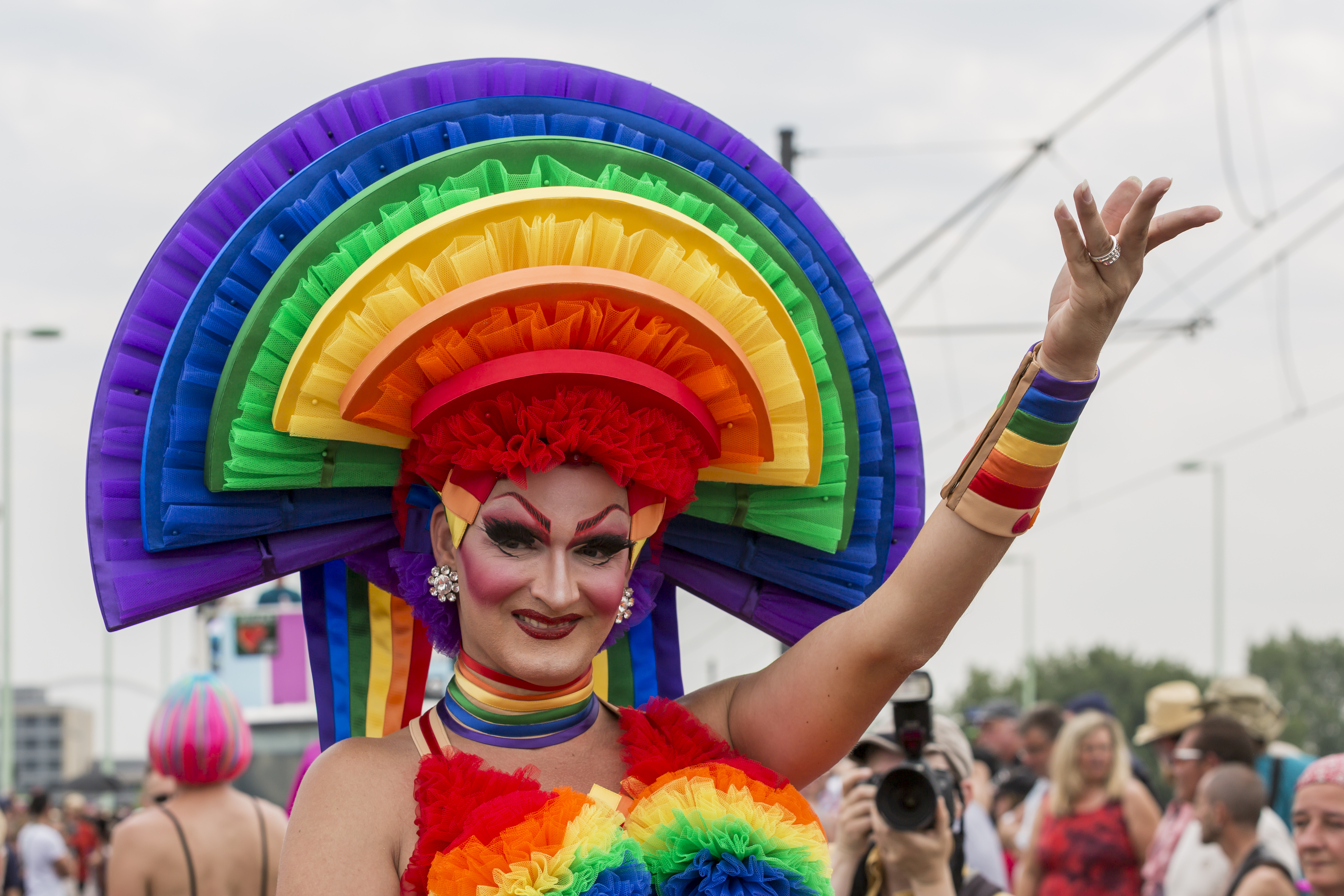 Cologne, Germany: Drag queen "Tatjana Taft" at Cologne Pride Parade 2015